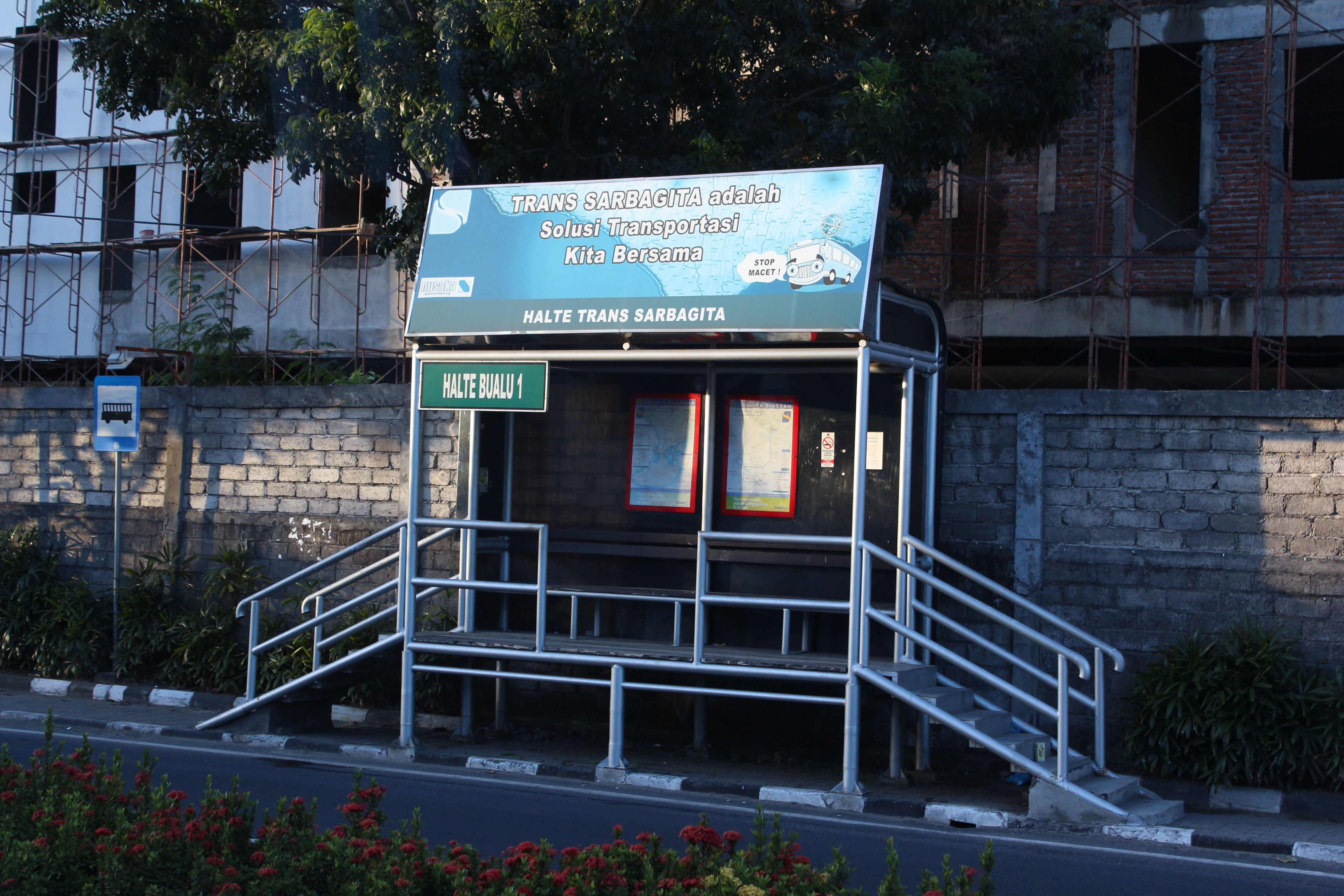 Station of Trans Sarbagita "Bulau 1" in Bali, Indonesia.